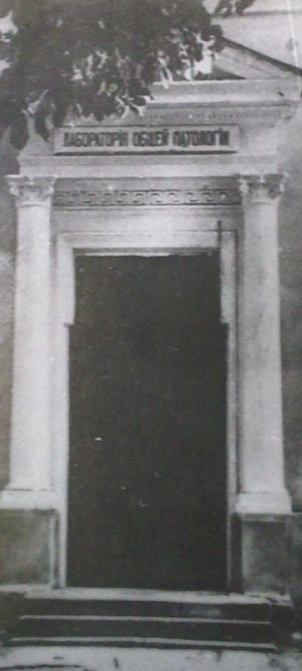 Laboratory of general pathology in Kyiv (1890s)